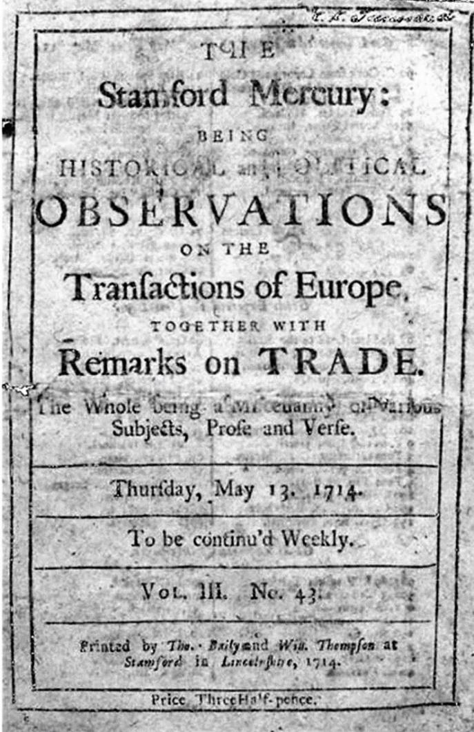 A copy of the Stamford Mercury from the 15th of May 1714, the oldest copy held at the Mercury archives.